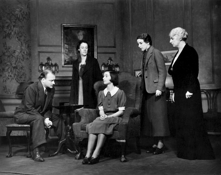 Promotional photograph for the 1934 play The Children's Hour Subjects of photograph, from left: Robert Keith, Anne Revere, Florence McGee, Katherine Emery, Katherine Emmet